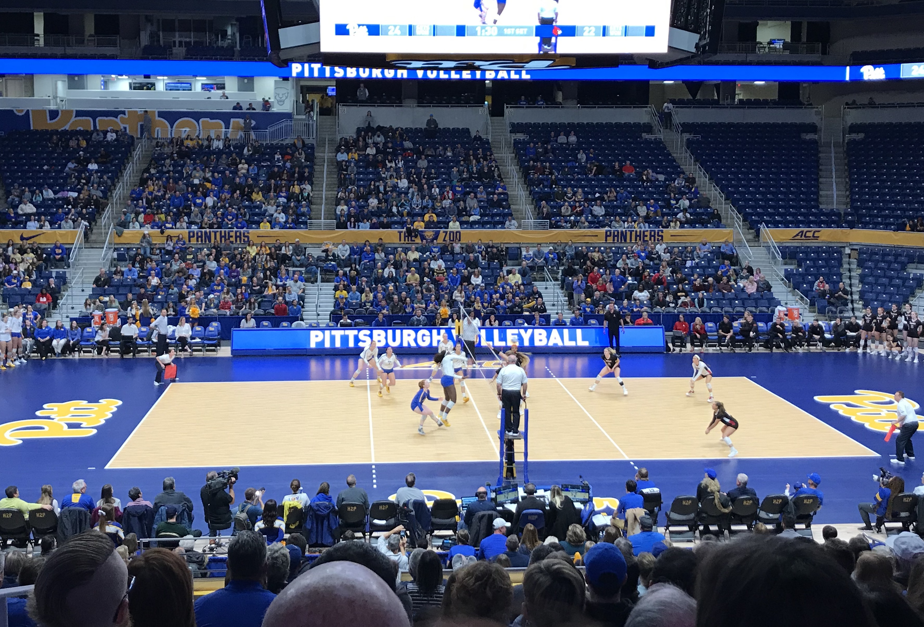 Pitt Volleyball in a 2019 game vs Louisville at the Petersen Events Center